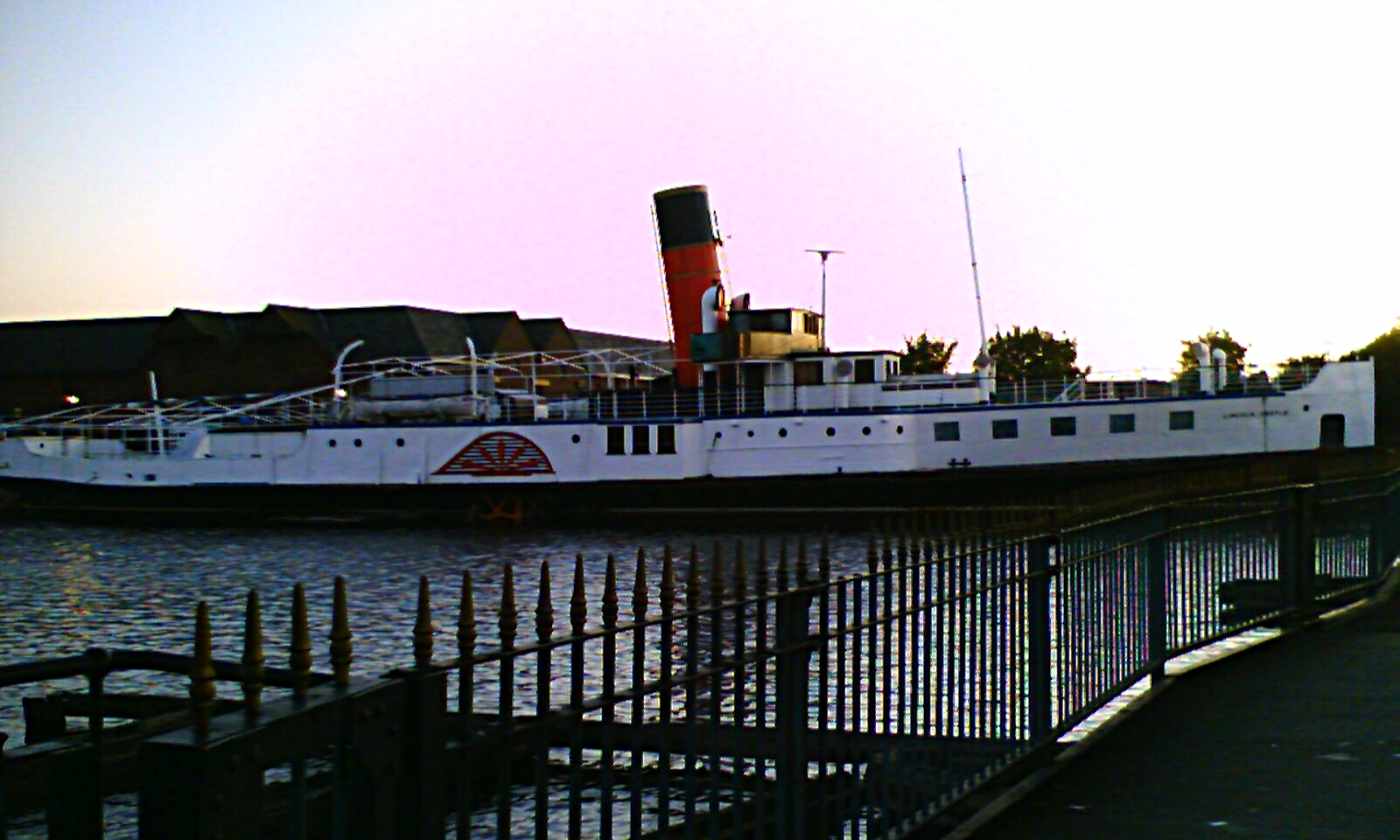 Lincoln Castle in Alexandra Dock, Grimsby, near the National Fishing Heritage Centre. She lost her mainmast and her foremast was shortened after she came out of ferry service. Photo by E Asterion u talking to me?